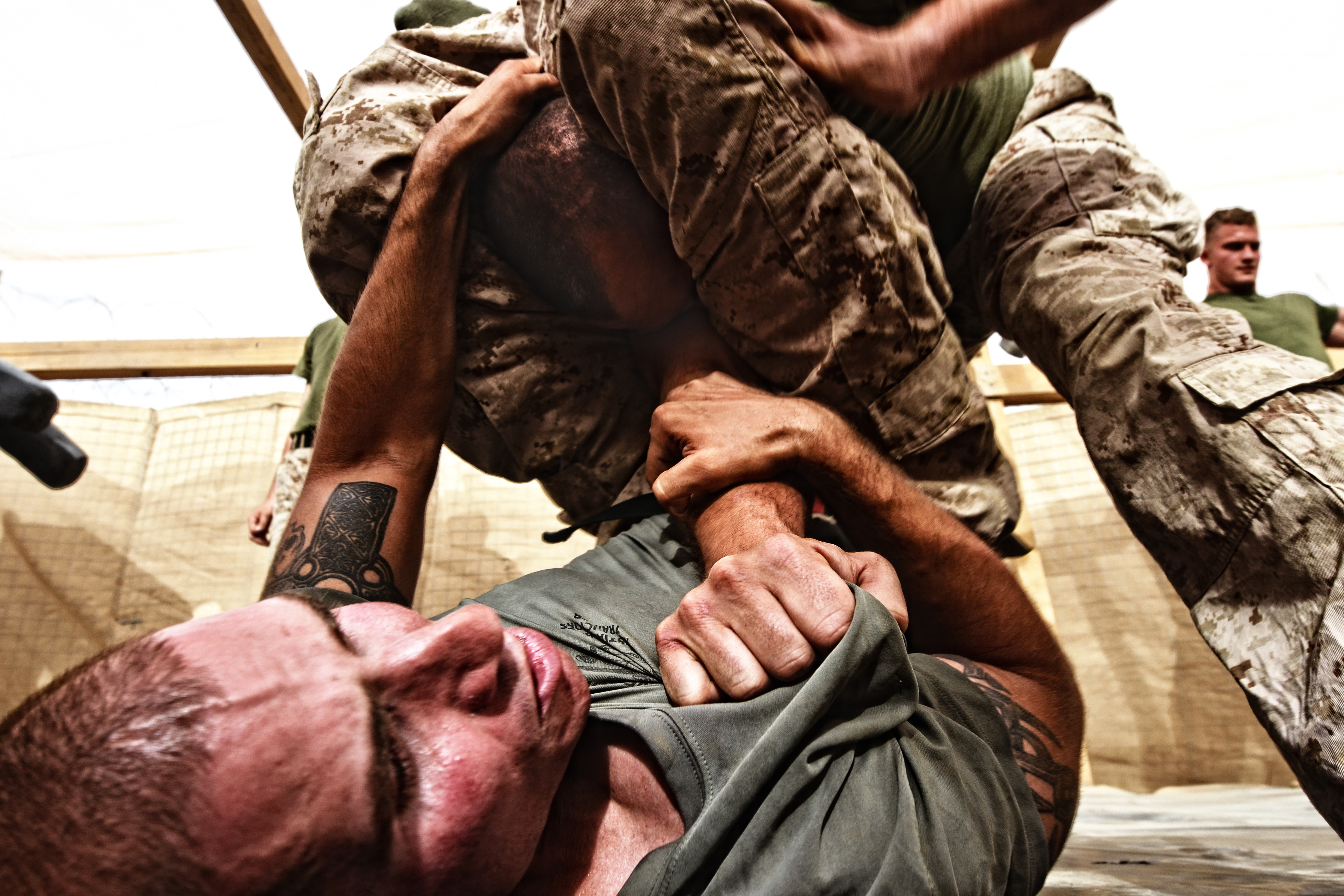 Staff Sgt. Christopher B. Milam, Martial Arts Instructor Course instructor, Bravo Company, Combat Logistics Battalion 4, 1st Marine Logistics Group (Forward) grapples with a student here, July 14, during the final conditioning session. The grappling station was one of the many workout stations the students had to rotate through during the session. (U.S. Marine Corps photo by Cpl. Mark Stroud) To read more visit